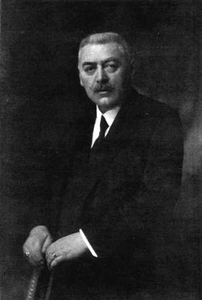 Zsigmond Jakabházy Hungarian pharmacologist, toxicologist (1867-1945)